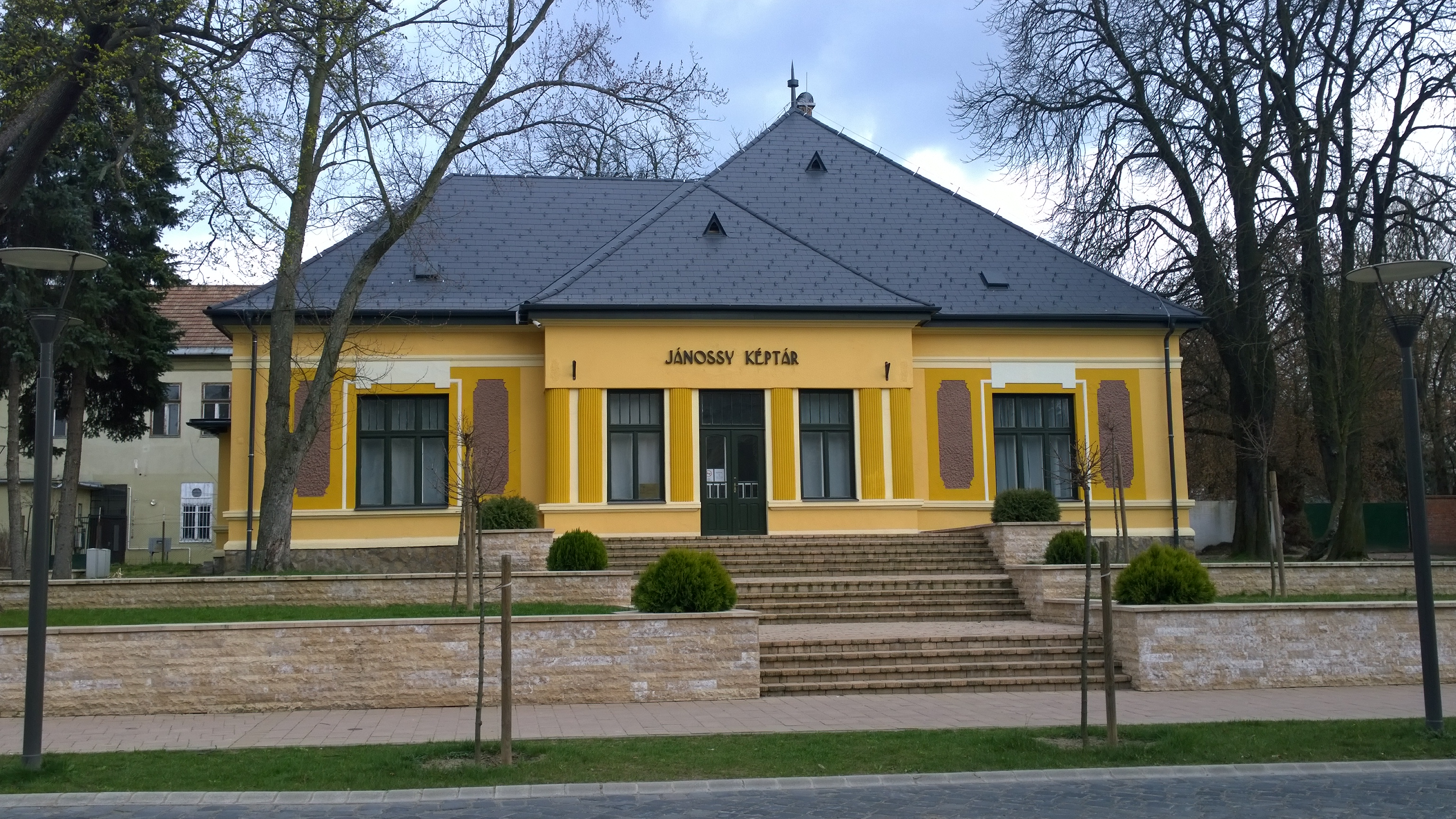 Jánossy Gallery on the main square of Balassagyarmat